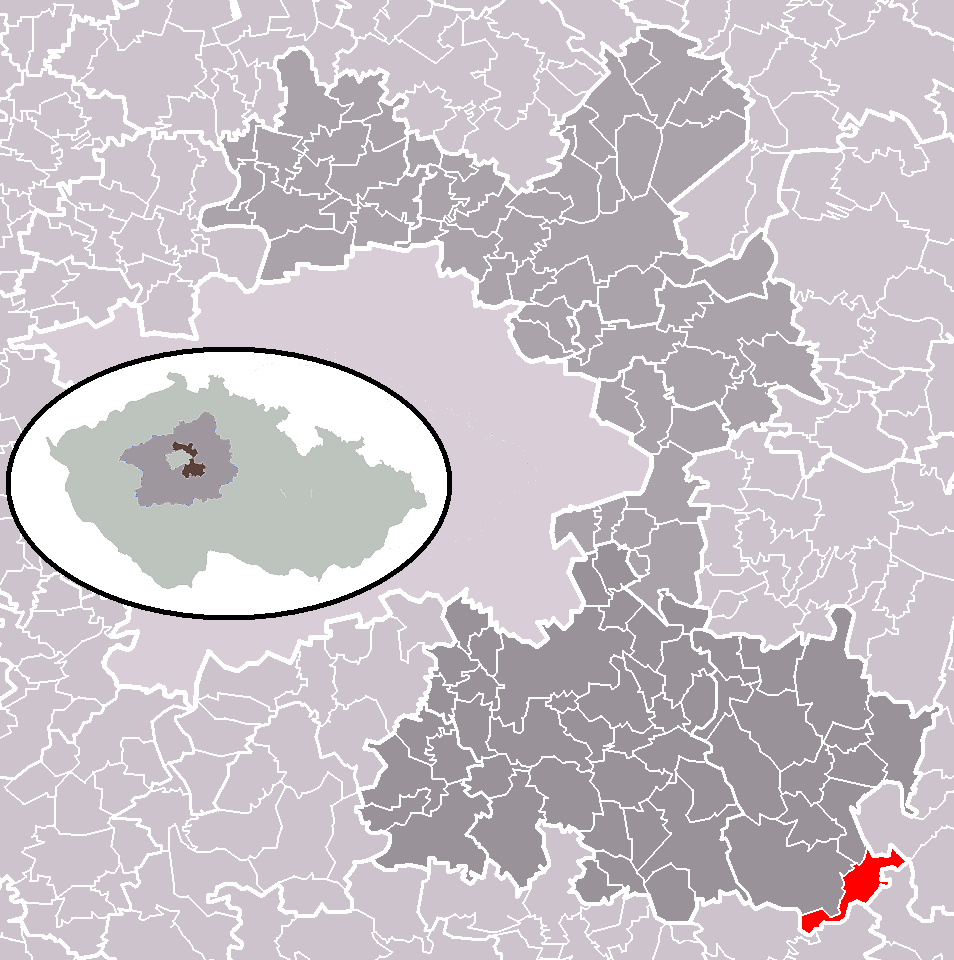 Location of Vlkančice municipality within Prague-East District and administrative area of Říčany as a Municipality with Extended Competence.